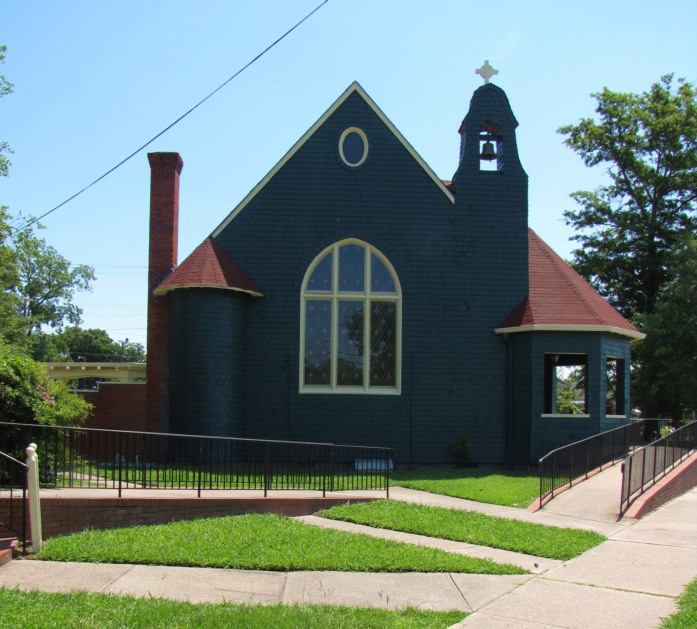 St. Joseph's Episcopal Church is an Episcopal parish in Fayetteville, North Carolina. Its historic church at Ramsey and Moore Streets was built in 1896 and added to the National Register of Historic Places in 1982.